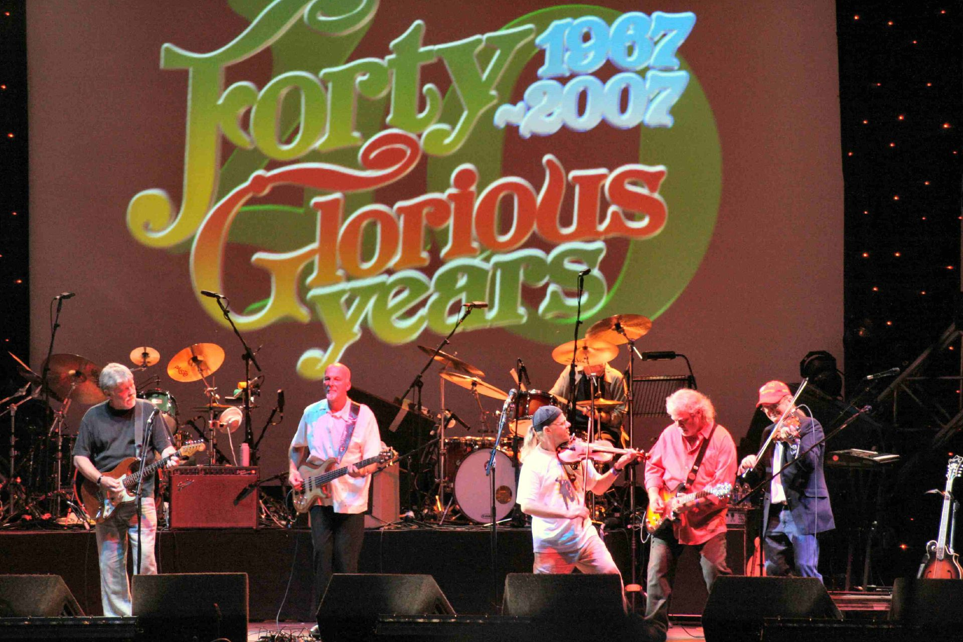 Fairport's 40th Anniversary Reunion